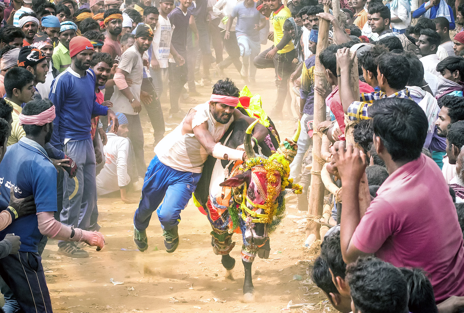 Byadagi maantha (ಬ್ಯಾಡಗಿ ಮಾಂತಾ) catching the bull at Huluginakoppa bull festival (Hori habba).2018